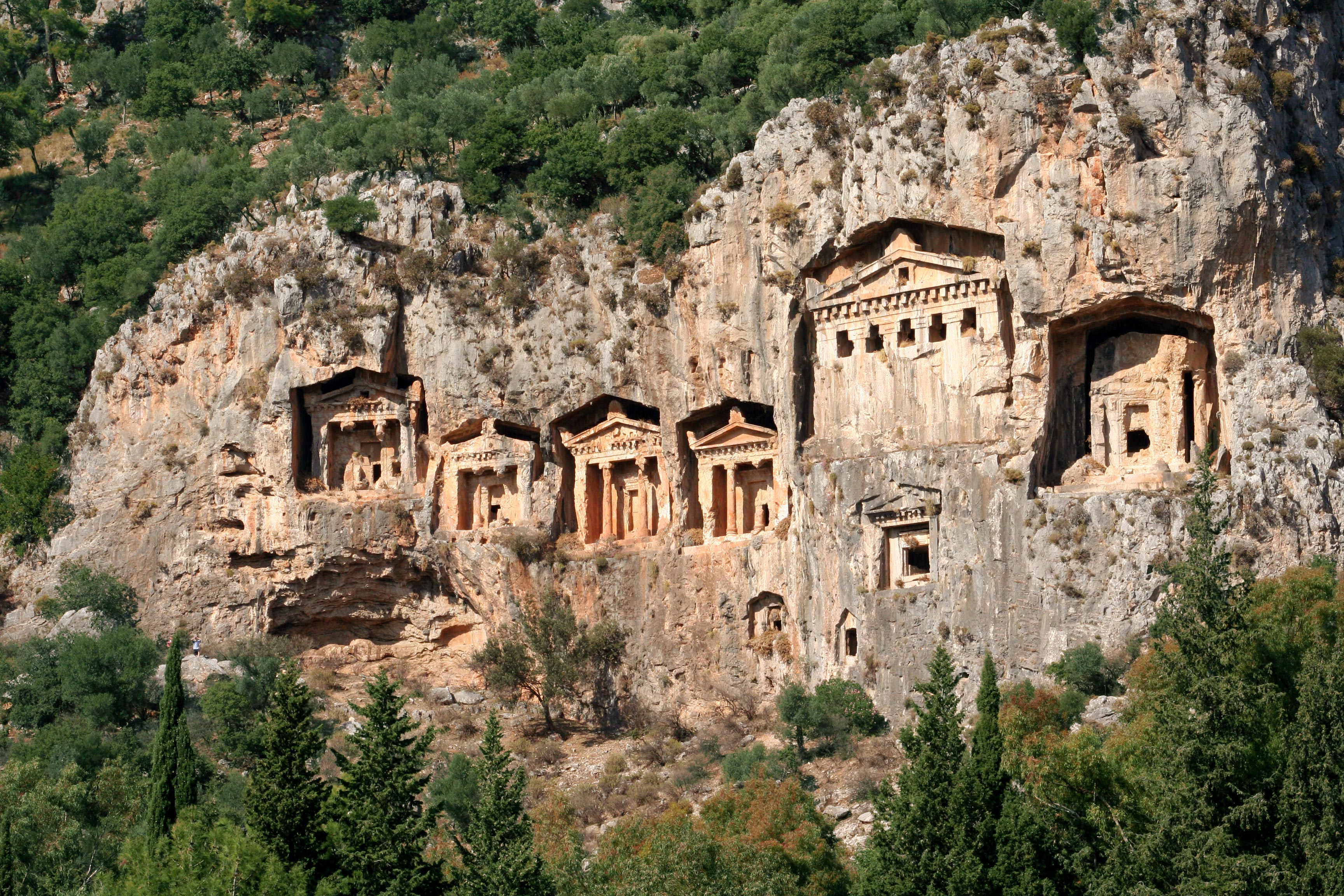 Catacombs in Turkey engraved into a local cliff face, taken from a river boat